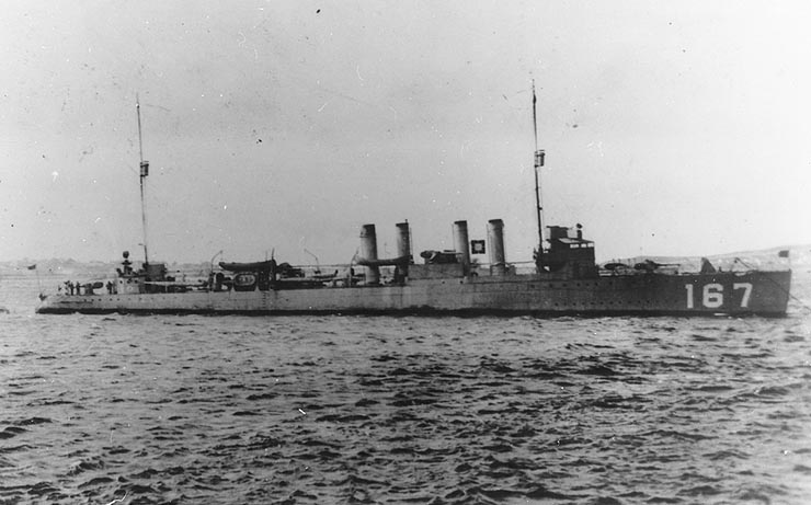 The U.S. Navy destroyer USS Cowell (DD-167) At anchor, circa the early 1920s.